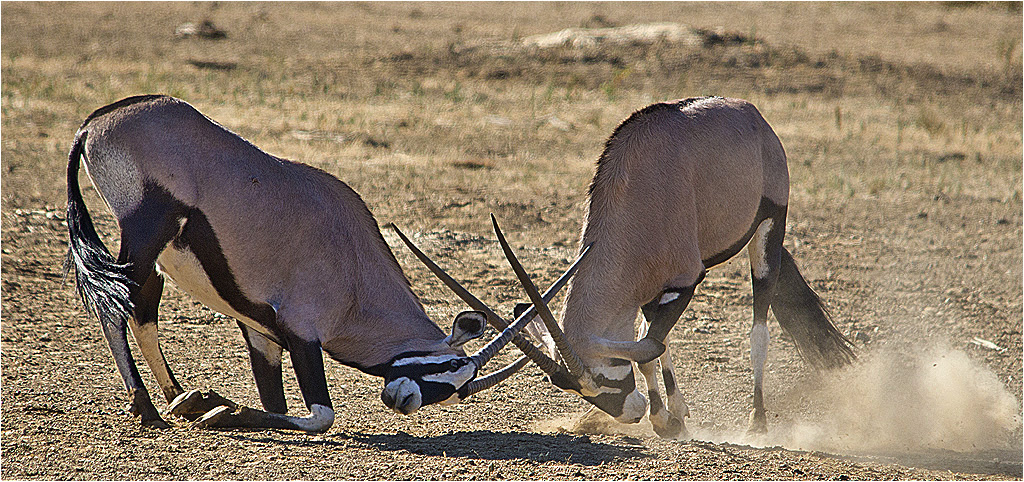 Mock fight